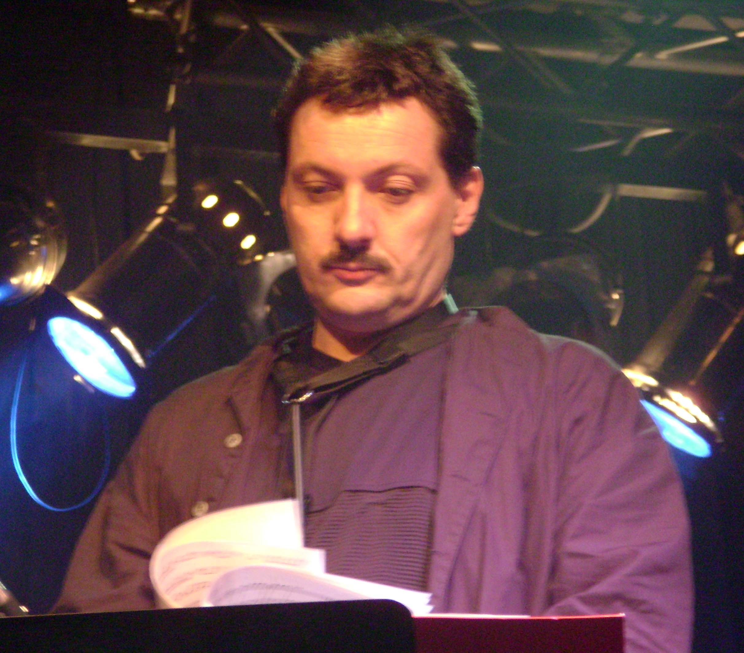 Christian Maurer at a concert with Saxofour. Treibhaus Innsbruck, 2008